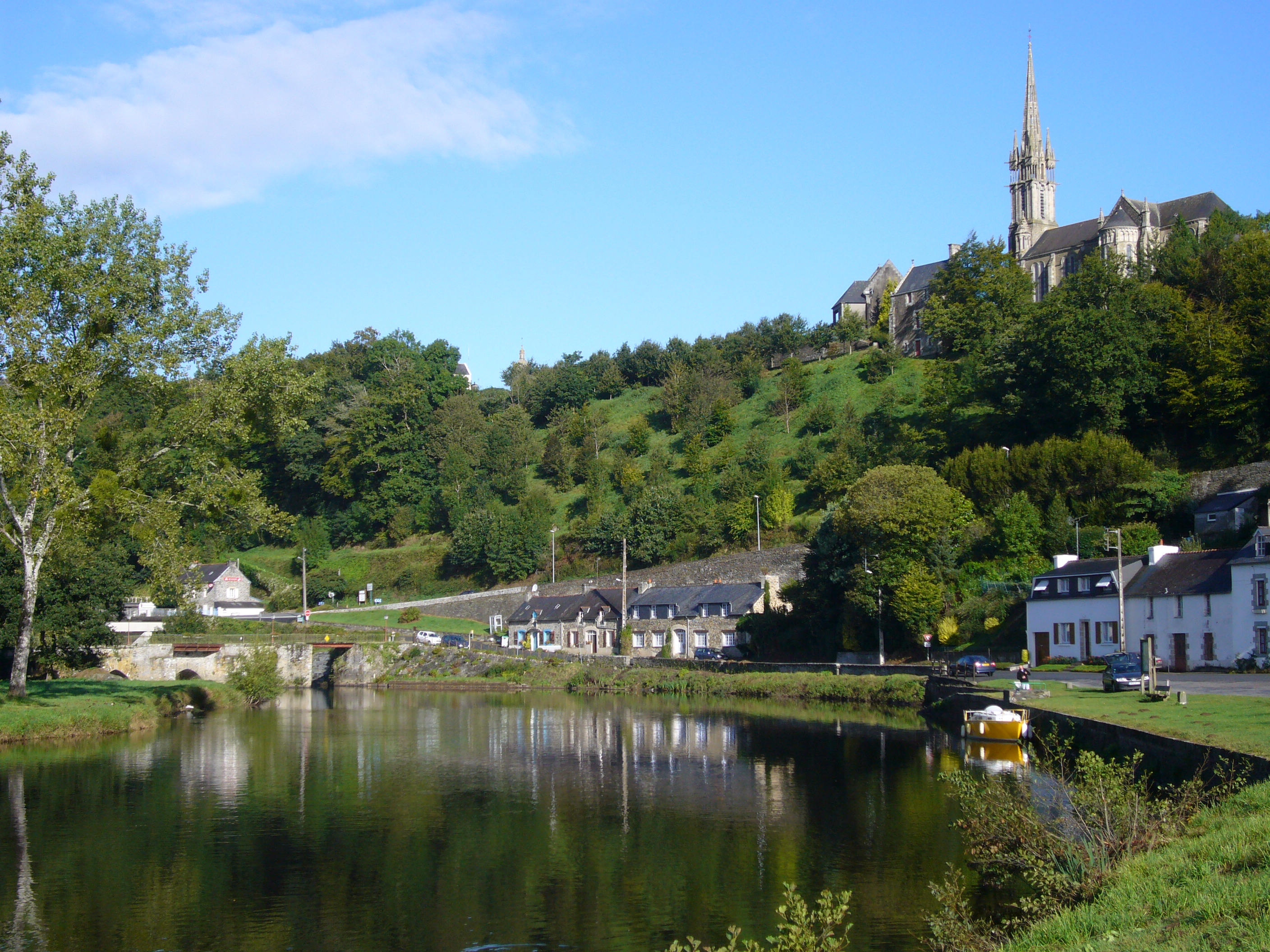 Châteauneuf-du-Faou on the River Aulne (downstream from its junction with the Nantes-Brest canal). Brittany, France.